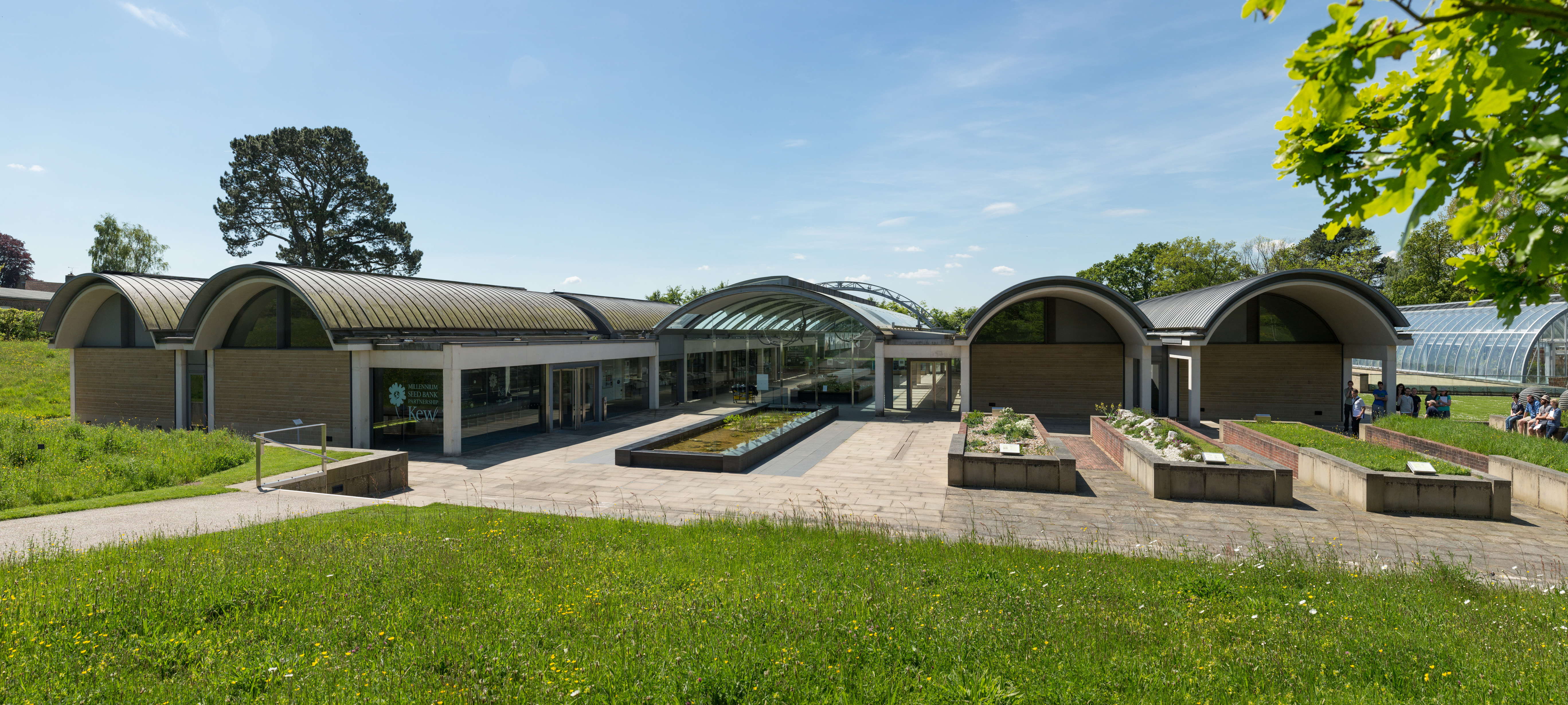 The Millennium Seed Bank Project buildings at Wakehurst Place, West Sussex, England.